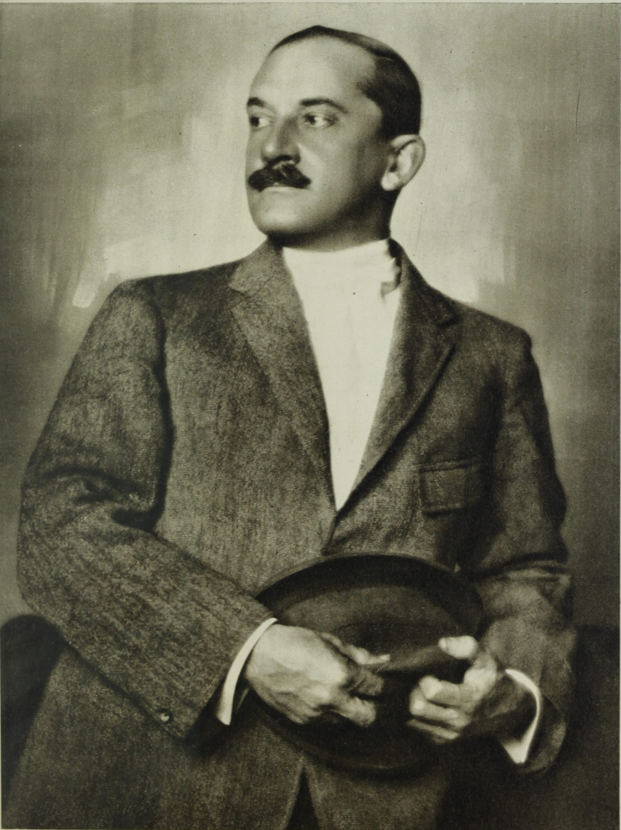 Portrait of the painter John Quincy Adams (1874–1933).